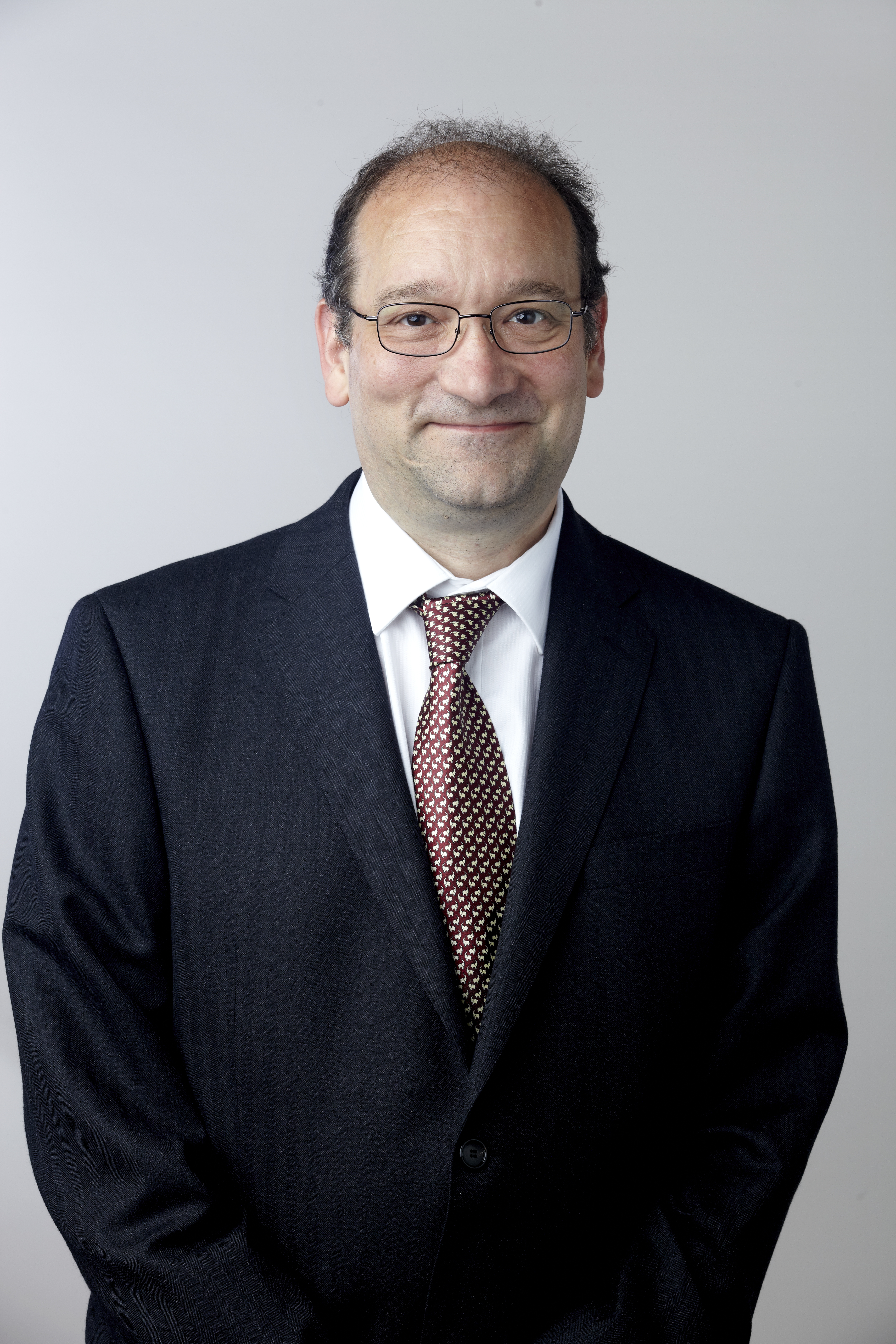 Dr Julian Parkhill FMedSci FRS, Royal Society Fellow Attribution: The Royal Society